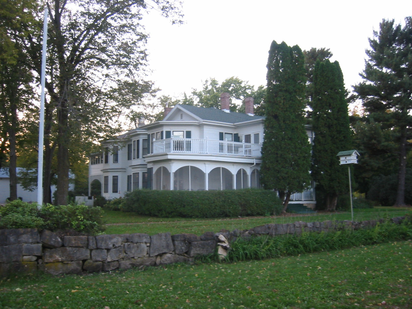 A house in Old Frontenac Historic District south of Red Wing, Minnesota, listed on the National Register of Historic Places.